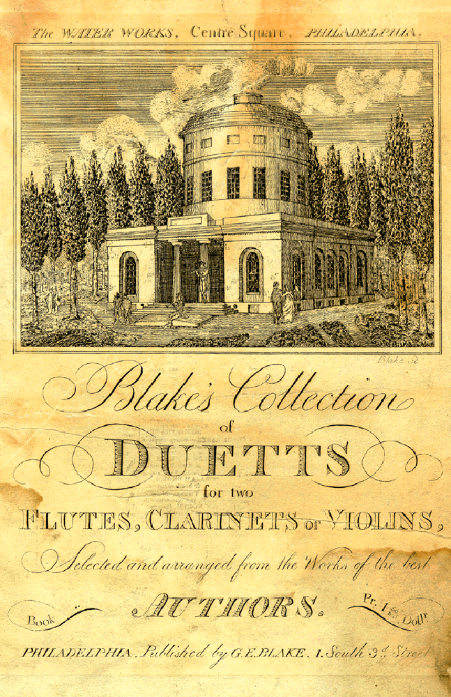 Title page of Blake's Collection of Duetts for Two Flutes, Clarinets, or Violins published by George E. Blake in Philadelphia circa 1807. The engraving, one of possibly the only examples of Blake's non-musical engravings, shows the building (designed by Benjamin Latrobe) that housed Philadelphia's water works, one of the first such systems in the country.